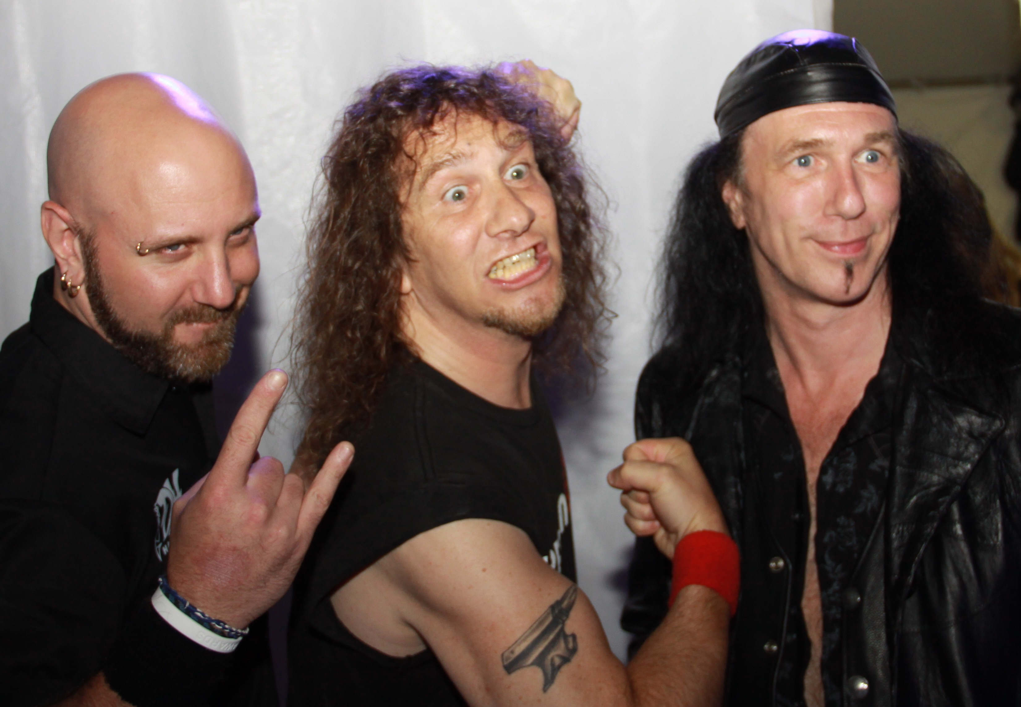 Anvil backstage at the Independent Spirit Awards in Los Angeles on March 5th, 2010.